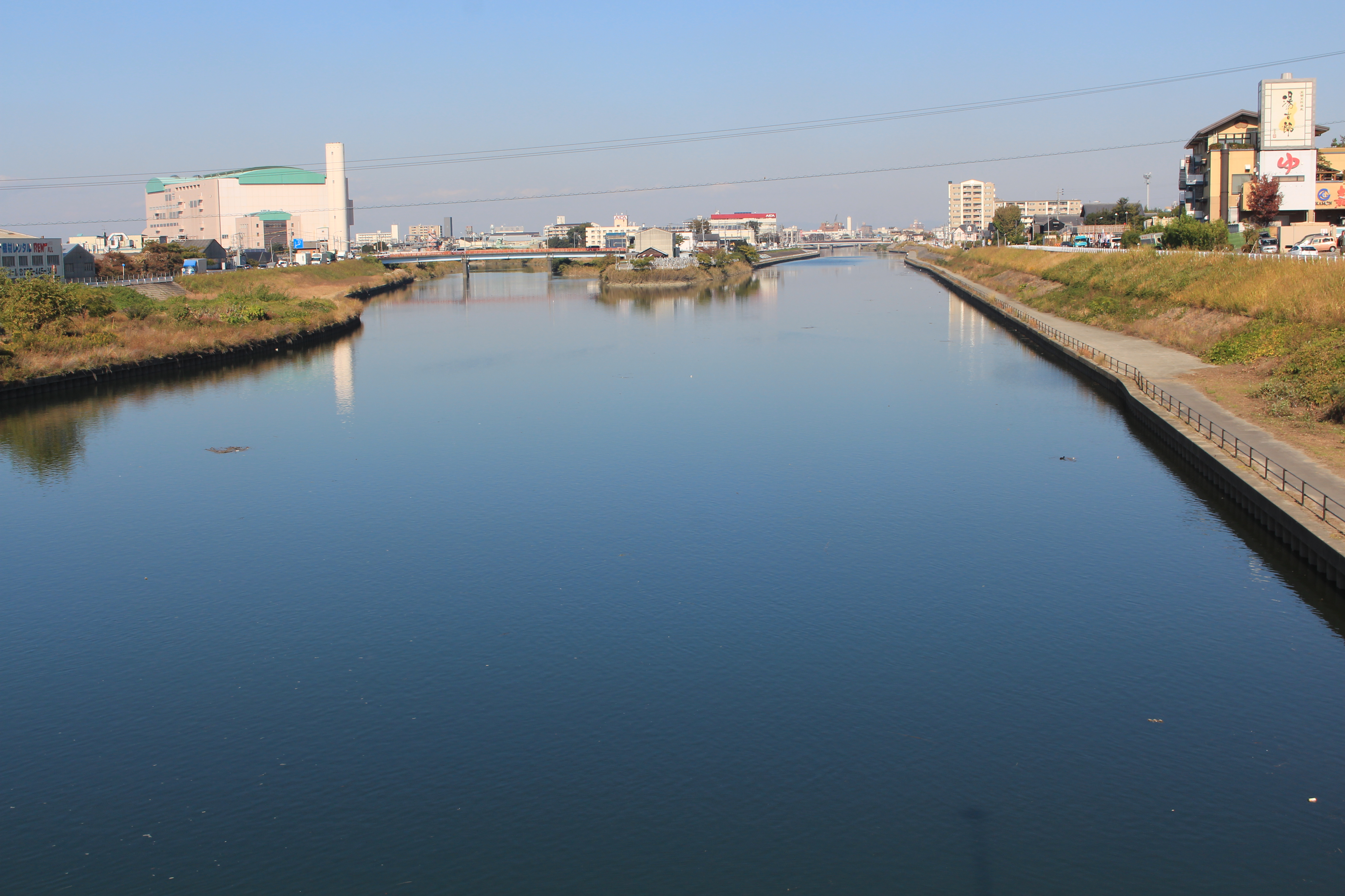 Gojo River and Shin River in Ama city and Kiyosu city, Aichi prefecture, Japan.